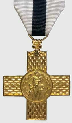 Badge of the Order of Mercy, version awarded by the re-established League of Mercy since 1999